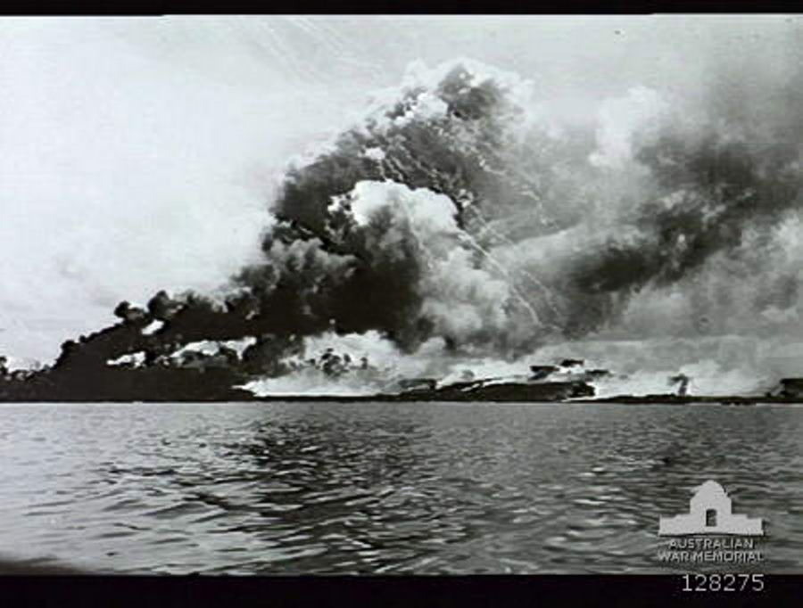 TARAKAN ISLAND. 1945-05-01. THE BOMBARDMENT OF THE ISLAND.